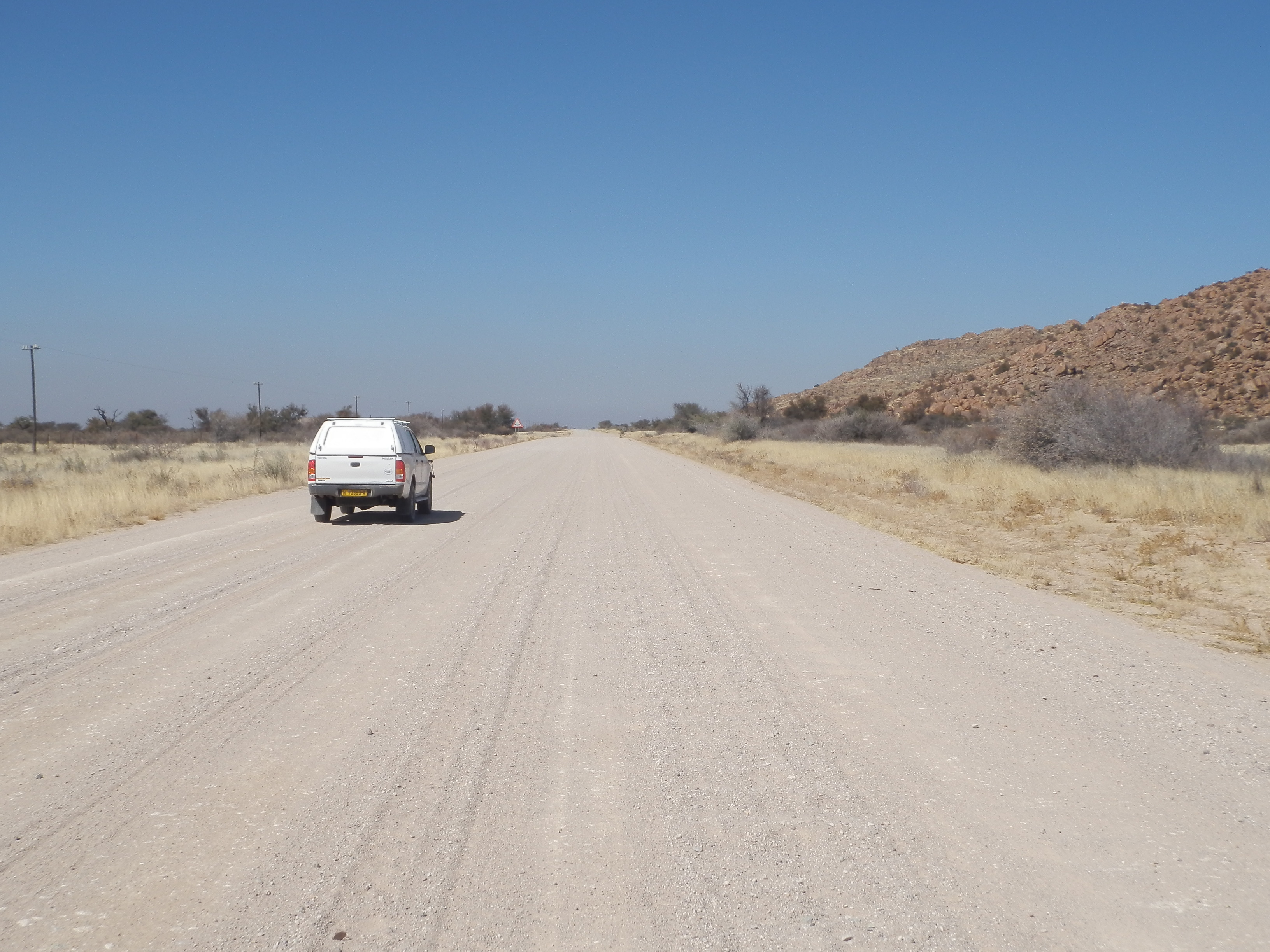 Main Road C24, gravel road, west of Rehoboth, Namibia